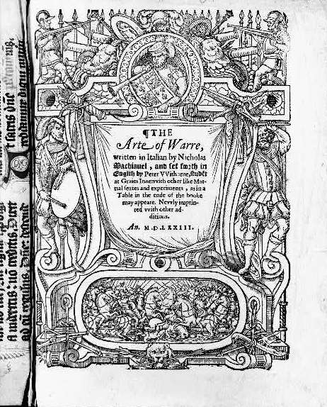 The Arte of Warre, written in Italian by Nicholas Machiauel, and ſet foorth in English by Peter VVithorne, published 1573. Public Domain, created 1819